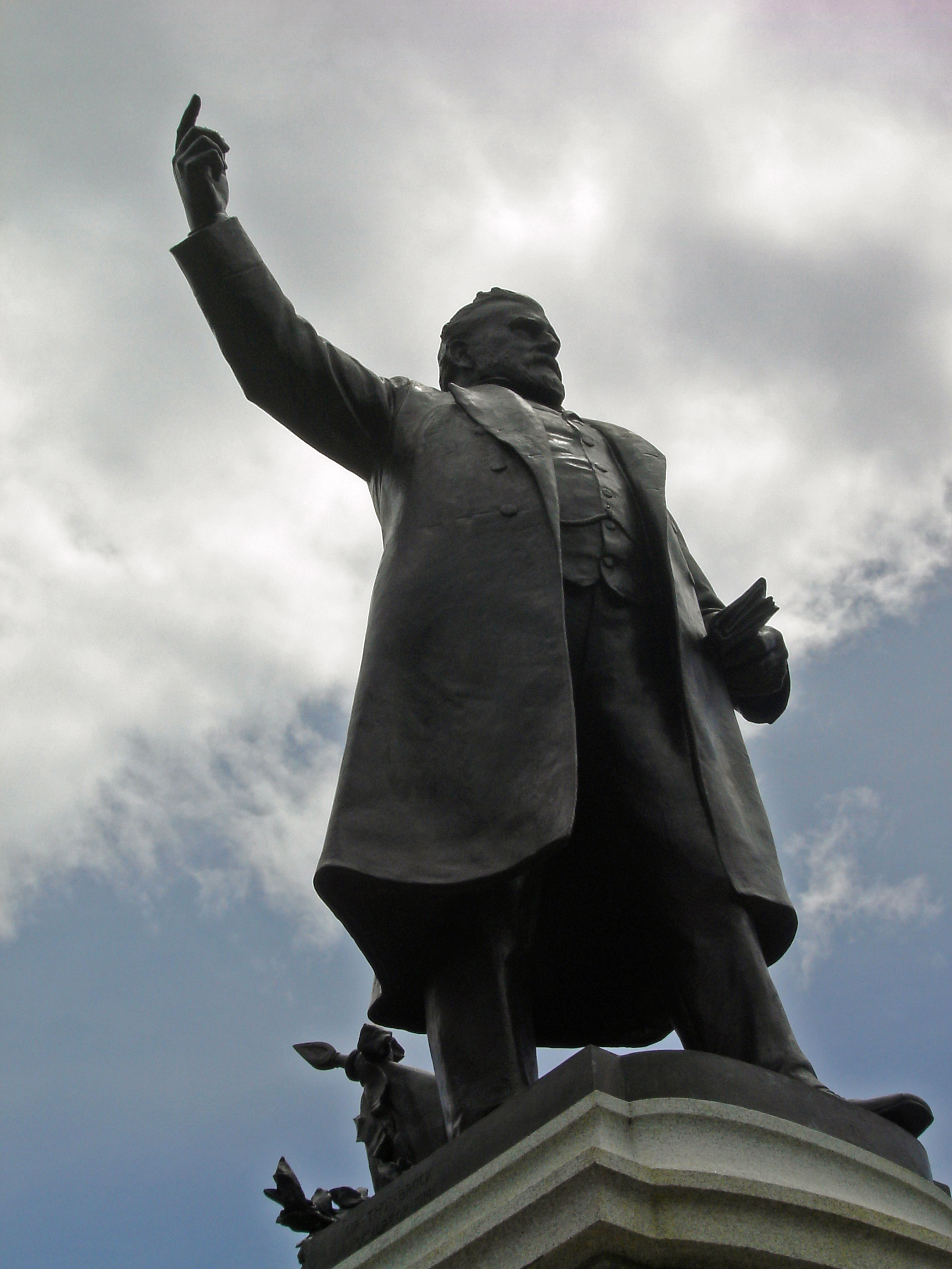 The statue of Richard Seddon outside Parliament House in Wellington, photographed by DO'Neil. New Zealand Historic Places Trust Register number: 230.